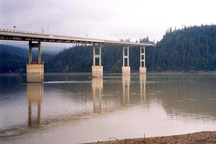 Photo of the E.L. Patton bridge over the Yukon River